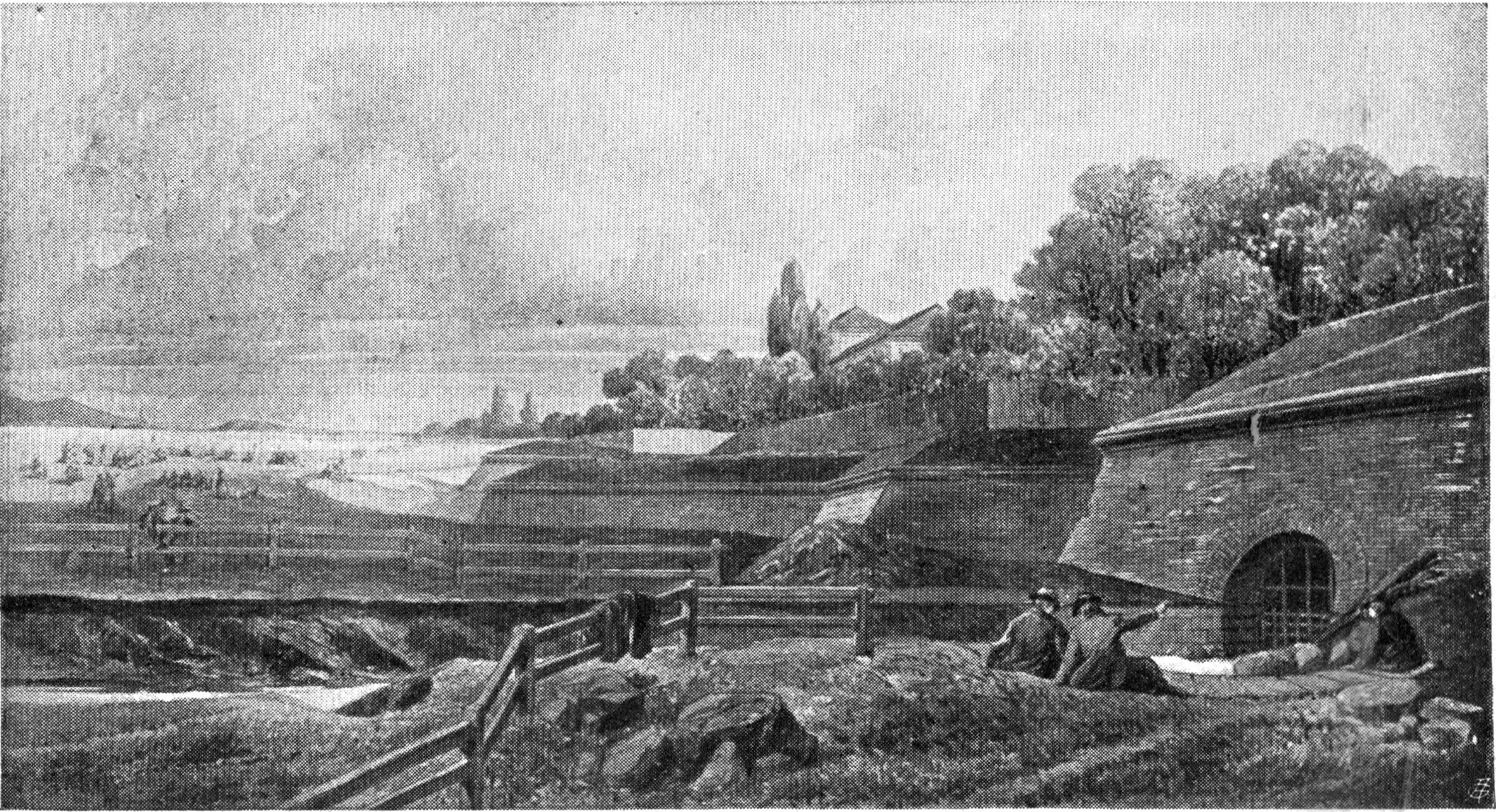 Linienwall old fortification at today's Währinger Gürtel in Vienna, before 1890.